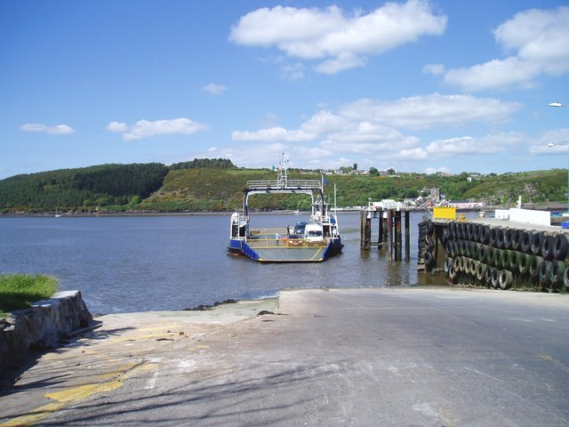 Ferry Arriving At Passage East. The ferry crossing the An tSuir (River Suir)at Passage East overcomes the longer journey via New Ross much further north.